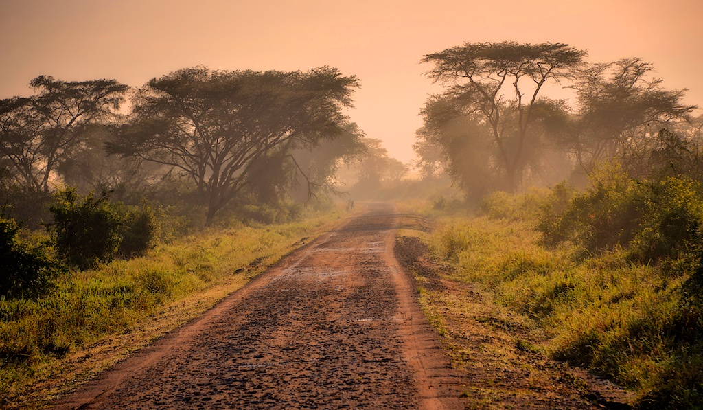 Uganda